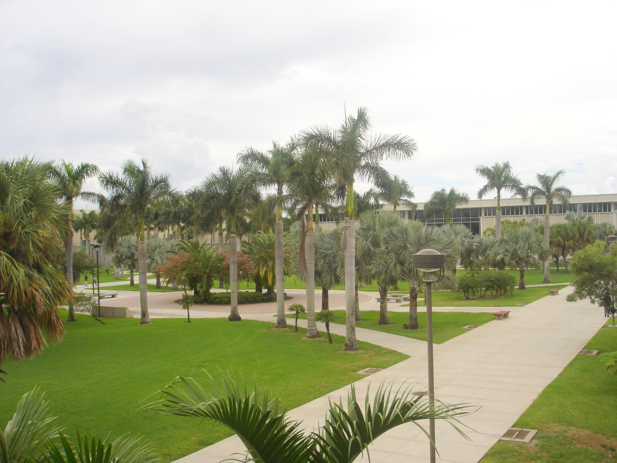 I took this picture on the Boca Raton campus of Florida Atlantic University on 8/20/06 between 12 and 1pm.